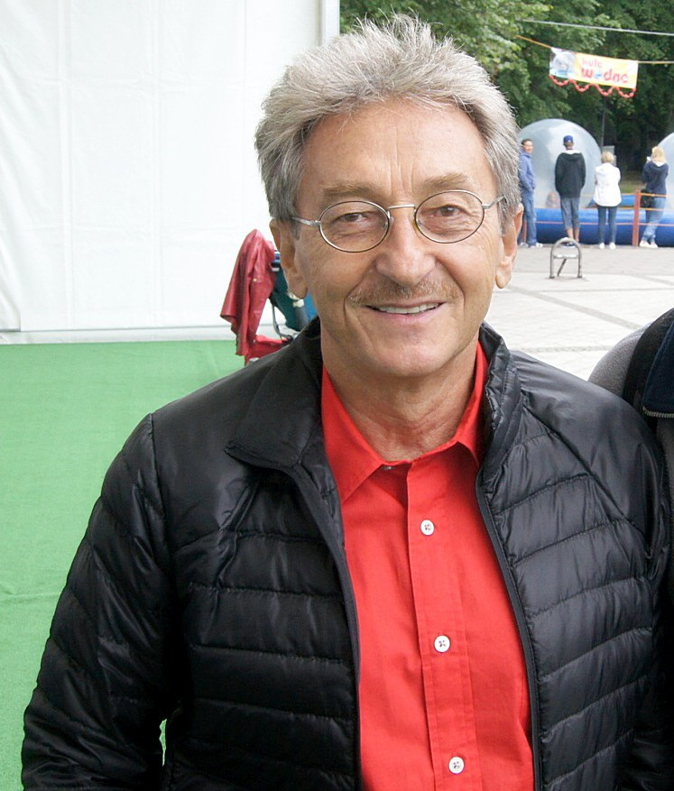 Allan Starski, polish set decorator.